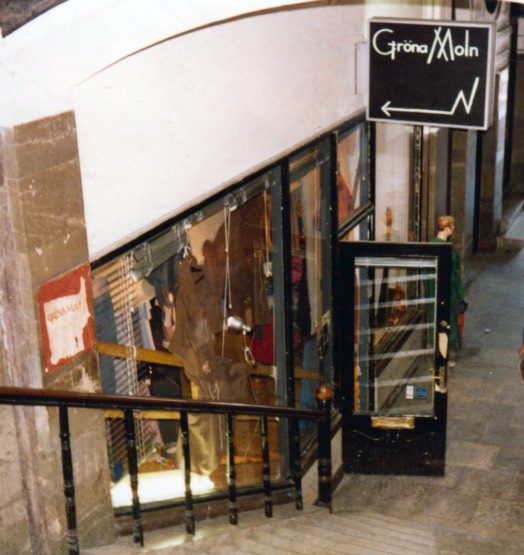 Gröna moln (boutique), Passagen Kornahamnstorg, Old Town, Stockholm. 1983.